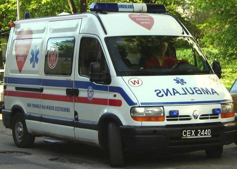 Polish ambulance Renault (red heart marking means, that it was bought from funds of annual charity public collection, Wielka Orkiestra Świątecznej Pomocy). With "AMBULANS" in mirror writing ("SNALUBMA").